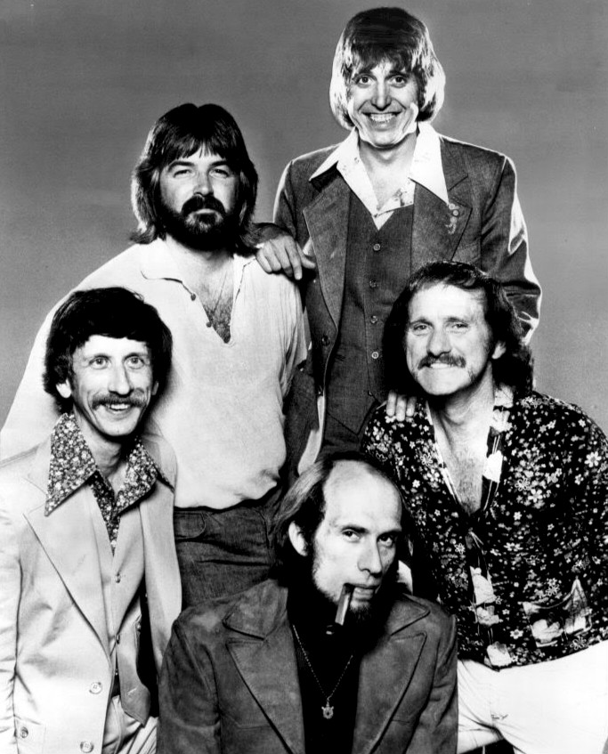 Photo of the music group The Dillards.